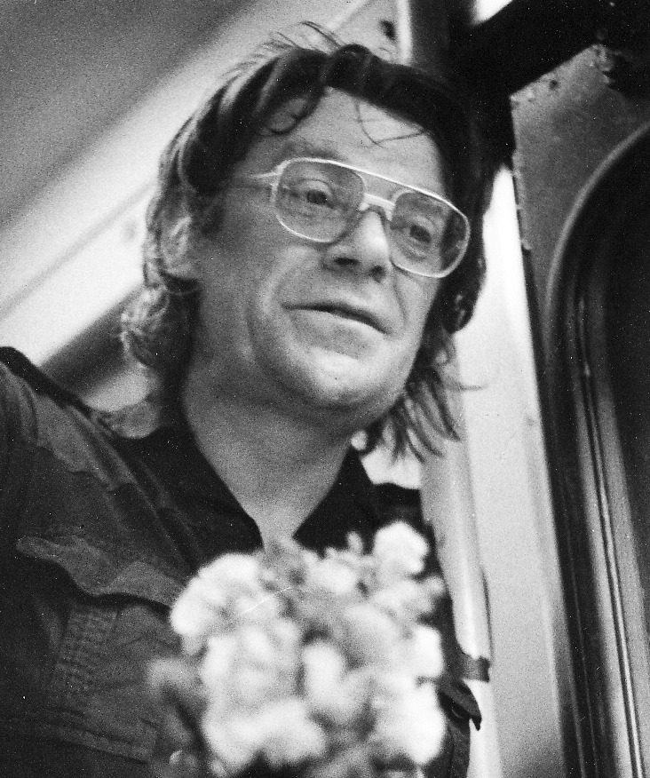 Jiří Němec, Czech philosopher and dissident (1983)